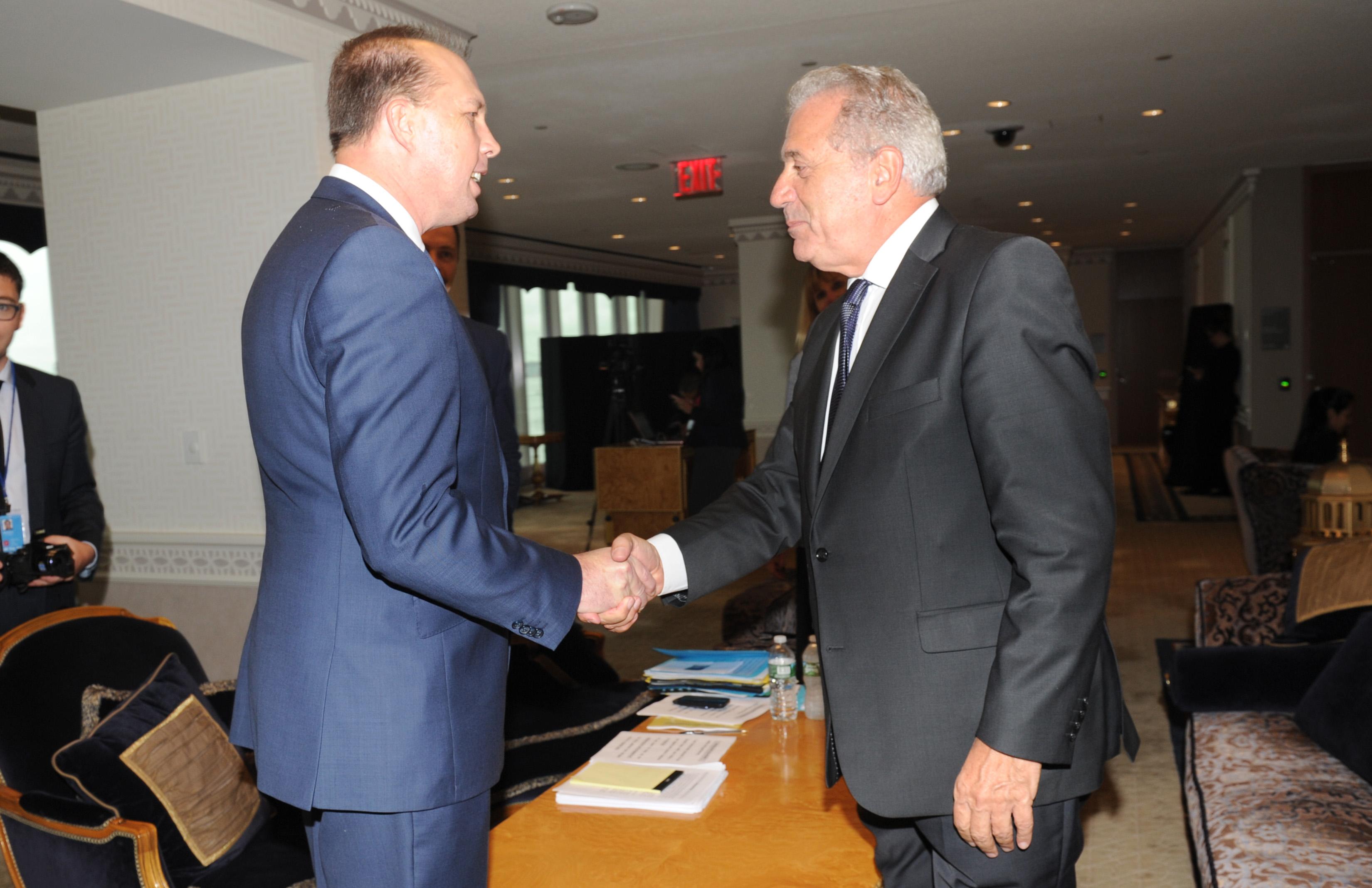 September 19, 2016 - New York,New York, United States European Commissioner for Migration, Home Affairs and Citizenship, Dimitris Avramopoulos has a bilateral meeting with Australian Minister for Immigration and Border Protection, HE Peter Dutton at the United Nations.